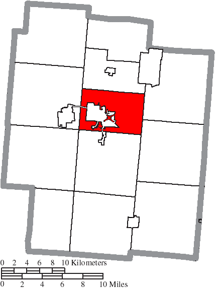 Map of the municipal and township boundaries of Jackson County, Ohio, United States, as of the 2000 census, with the location of Lick Township highlighted. Township borders are shown only in unincorporated areas in order to differentiate incorporated and unincorporated areas more clearly.